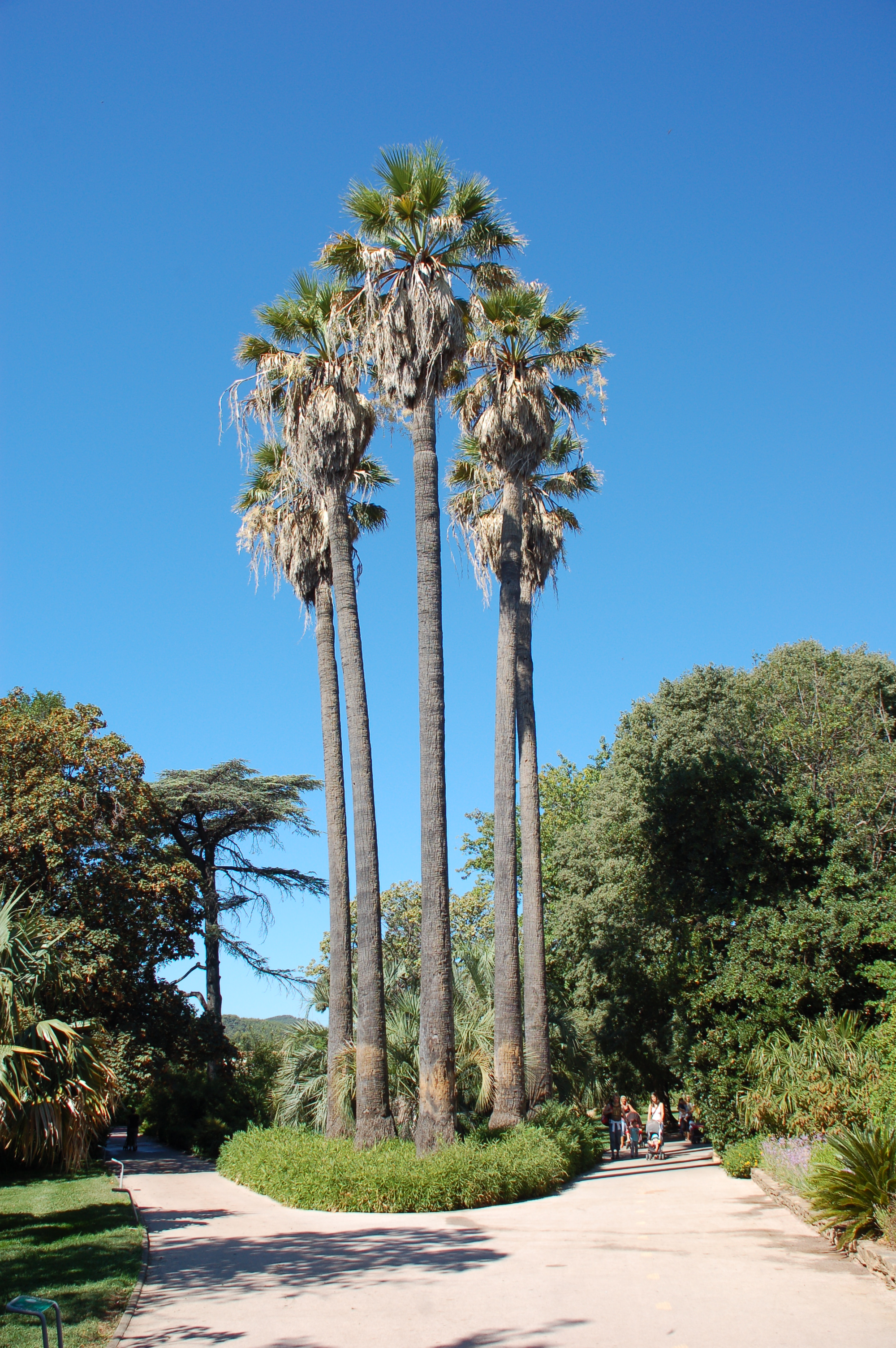 Olbius Riquier garden in hyeres